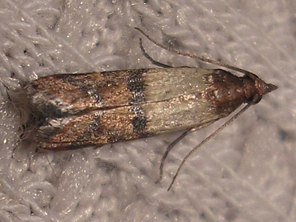 Indian Meal Moth (Plodia interpunctella).Location: Ballans, 17160 (Charente-Maritime) FranceKeywords: pest, food, chocolate